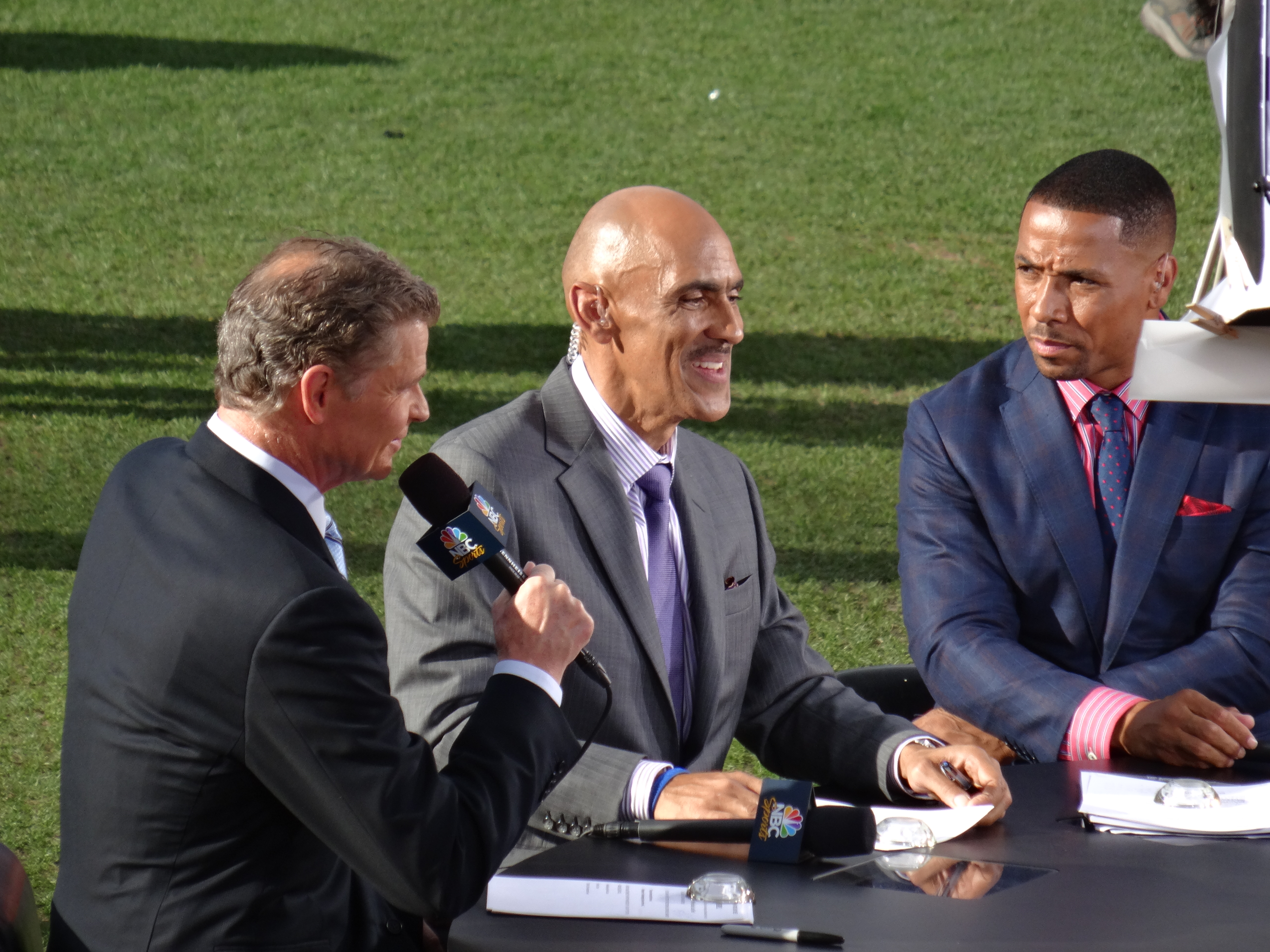 NBC Sports announcers Dan Patrick, Tony Dungy, and Rodney Harrison on the air before a NFL football game at Sports Authority at Mile High on September 5, 2013. The game, the first of the 2013 regular season, was between the Denver Broncos and the Baltimore Ravens.